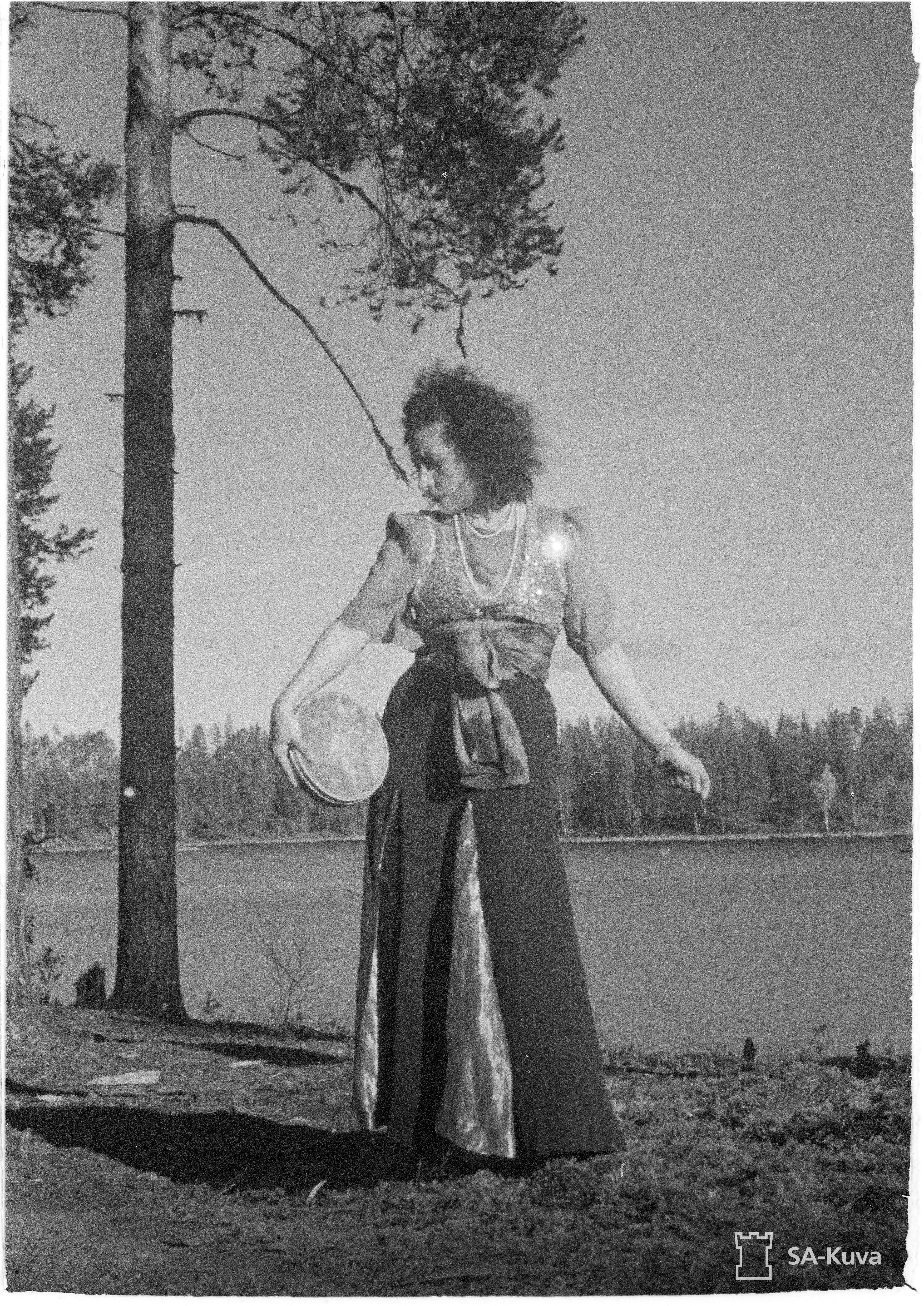 Photograph of the Finnish dancer Iris Salin (1906–1991) in Gypsy costume in Uhtua during World War II.